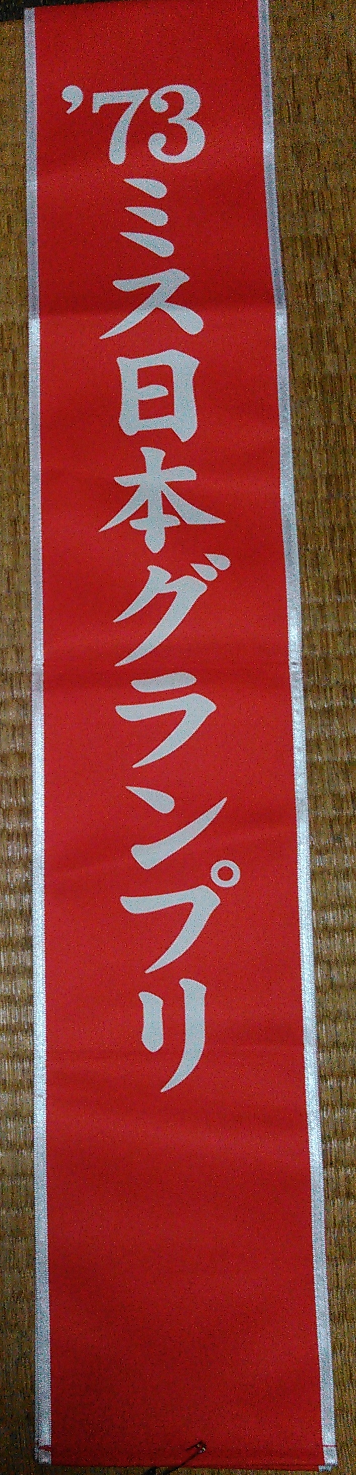 Replica Sash of 1973 Miss Nippon Grand Prix（Winners Miss Mitsumi-Hasegawa）